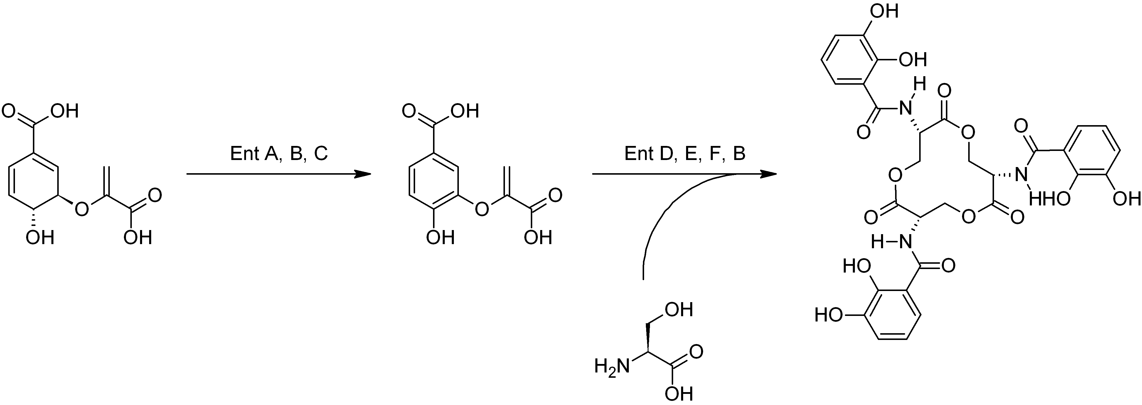 Synthesis of enterobactin, adapted from Image:Enterobactin synthesis.gif